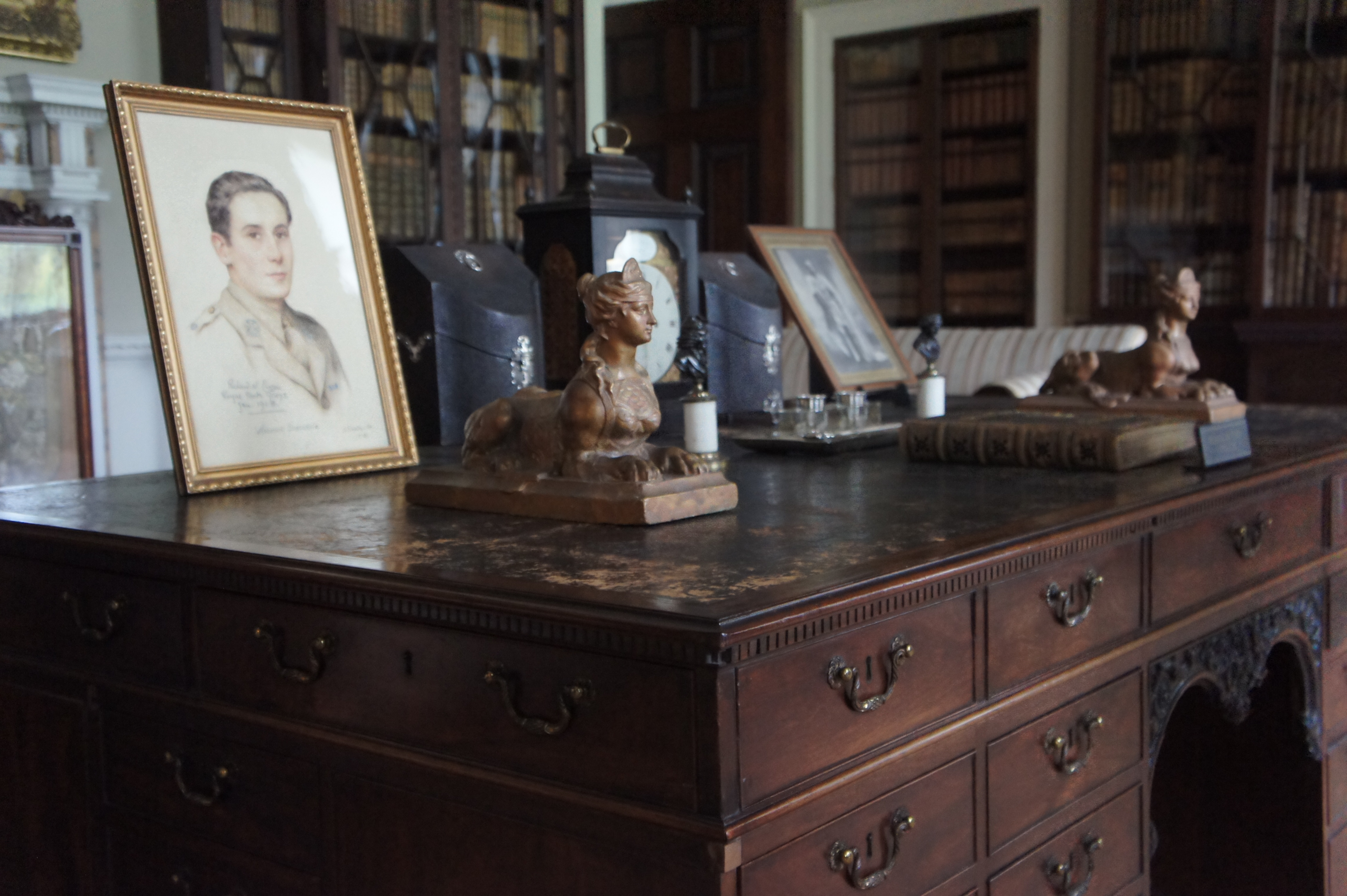 Interior of Kedleston Hall, Derebyshire